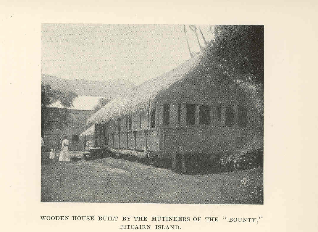 Wooden House Built by the Mutineers of the 'Bounty,' Pitcairn Island Subject: Islands, Pitcairn Island, Fishing villages Geographic Subject: Pitcairn Island Tag: Coasts